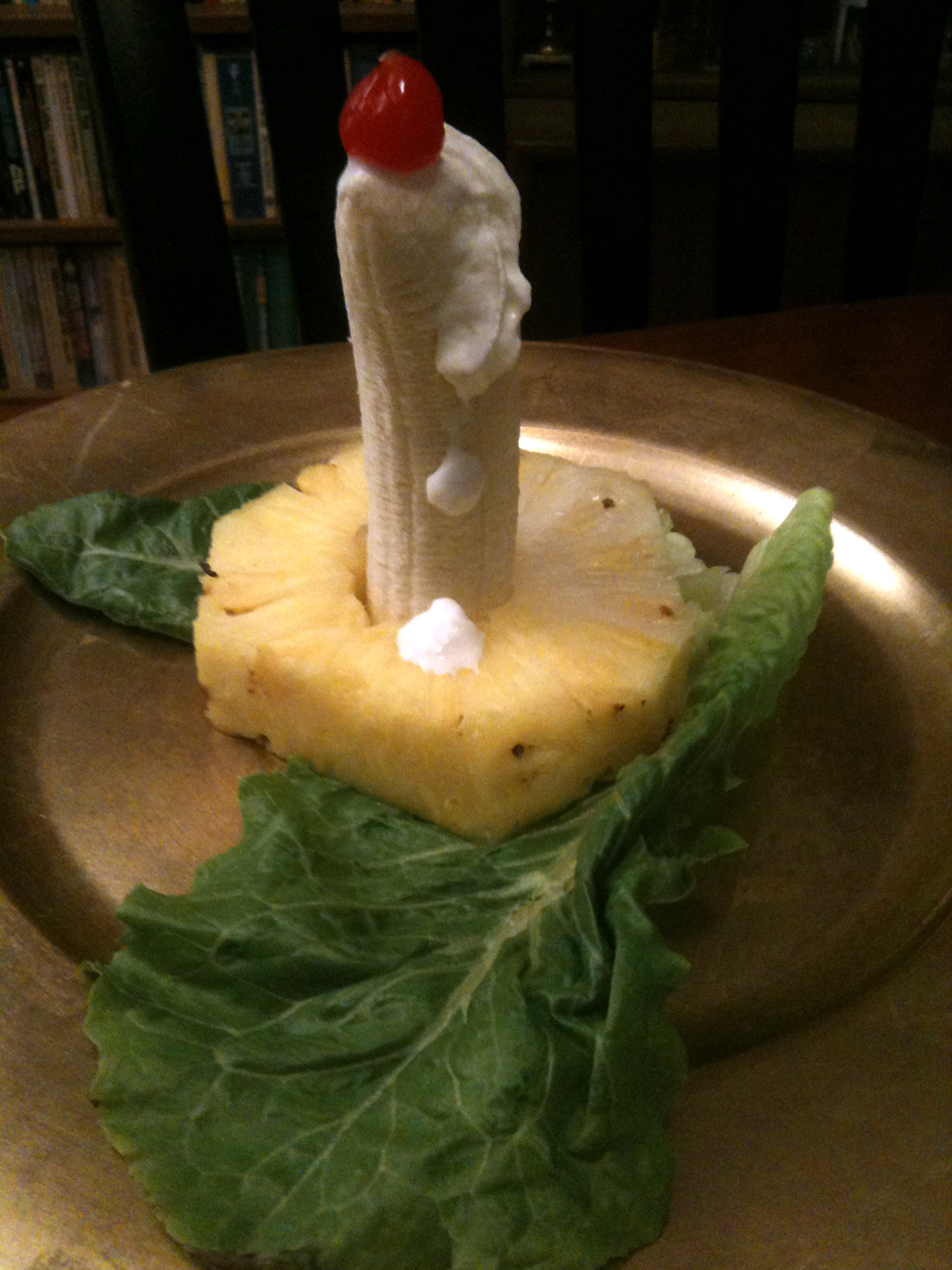 Prepared candle salad